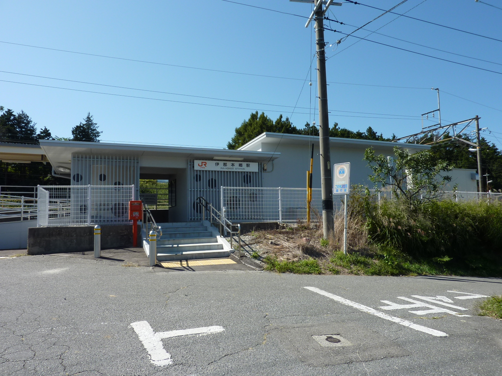 Ina-hongo Station on JR Iida Line (1886 Hongo, Iijima, Kamiina-gun, Nagano, Japan)